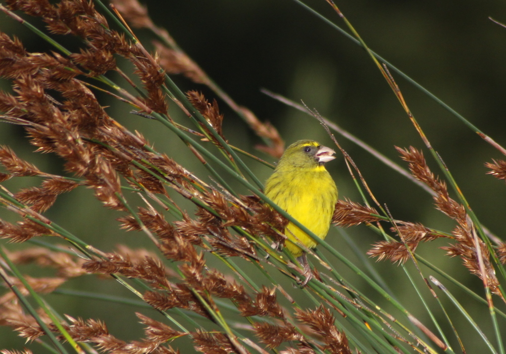 Forest canary at Kirstenbosch"Yellow canary (I think) - Kirstenbosch, in a patch or restios."